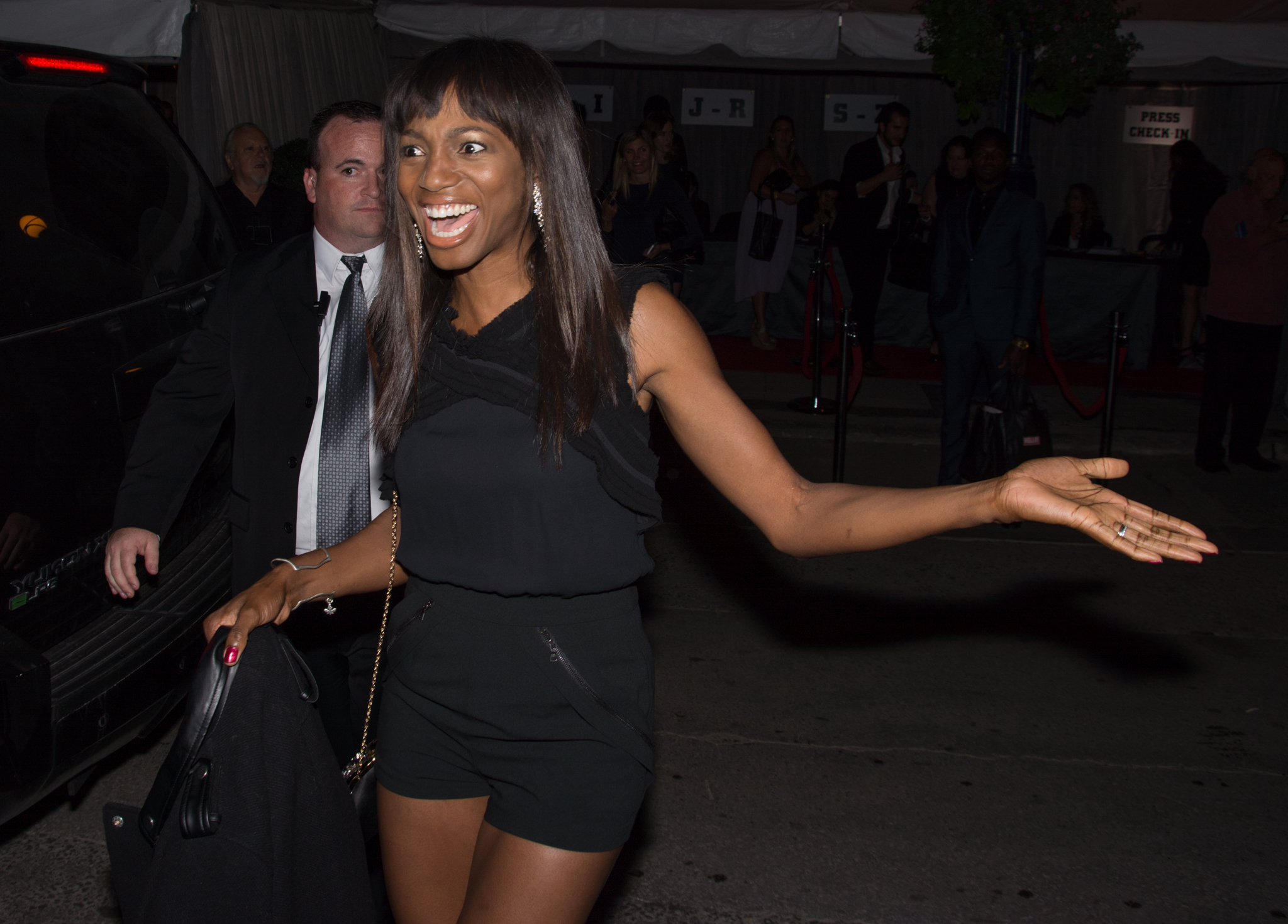 Actress Enuka Okuma arriving for the Hollywood Foreign Press Association & InStyle's 2014 TIFF Celebration